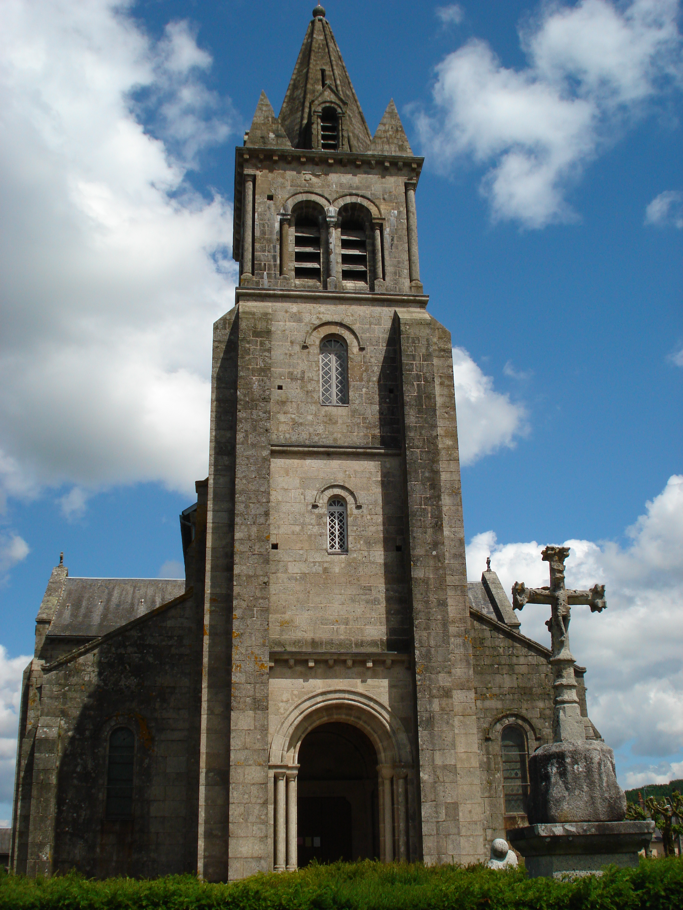 Dun-les-Places (Nièvre, Fr), church tower.